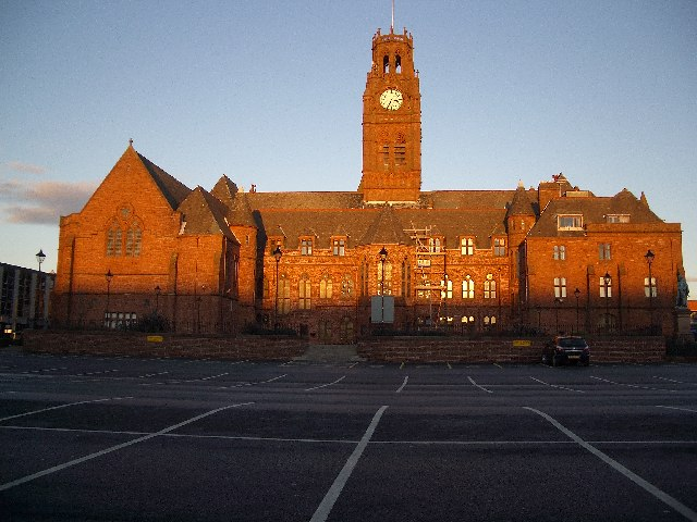 Barrow-in-Furness Town Hall This picture was taken from the car park at the FRONT of the building although it is a common mis-conception that the front of the building is on the opposite side that looks onto Duke Street.